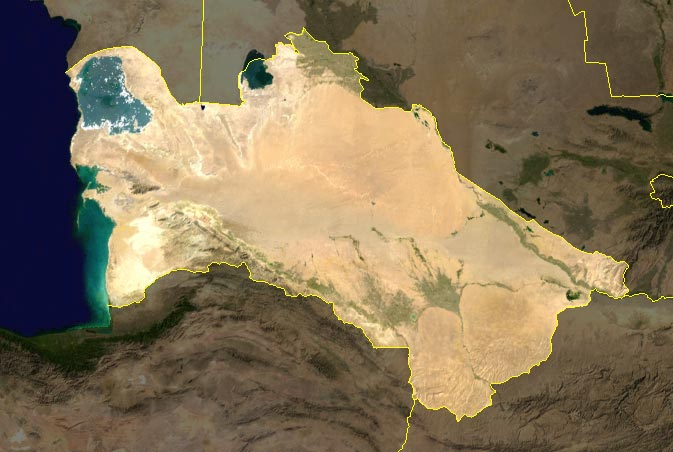 Image of Turkmenio based on a satellite picture.